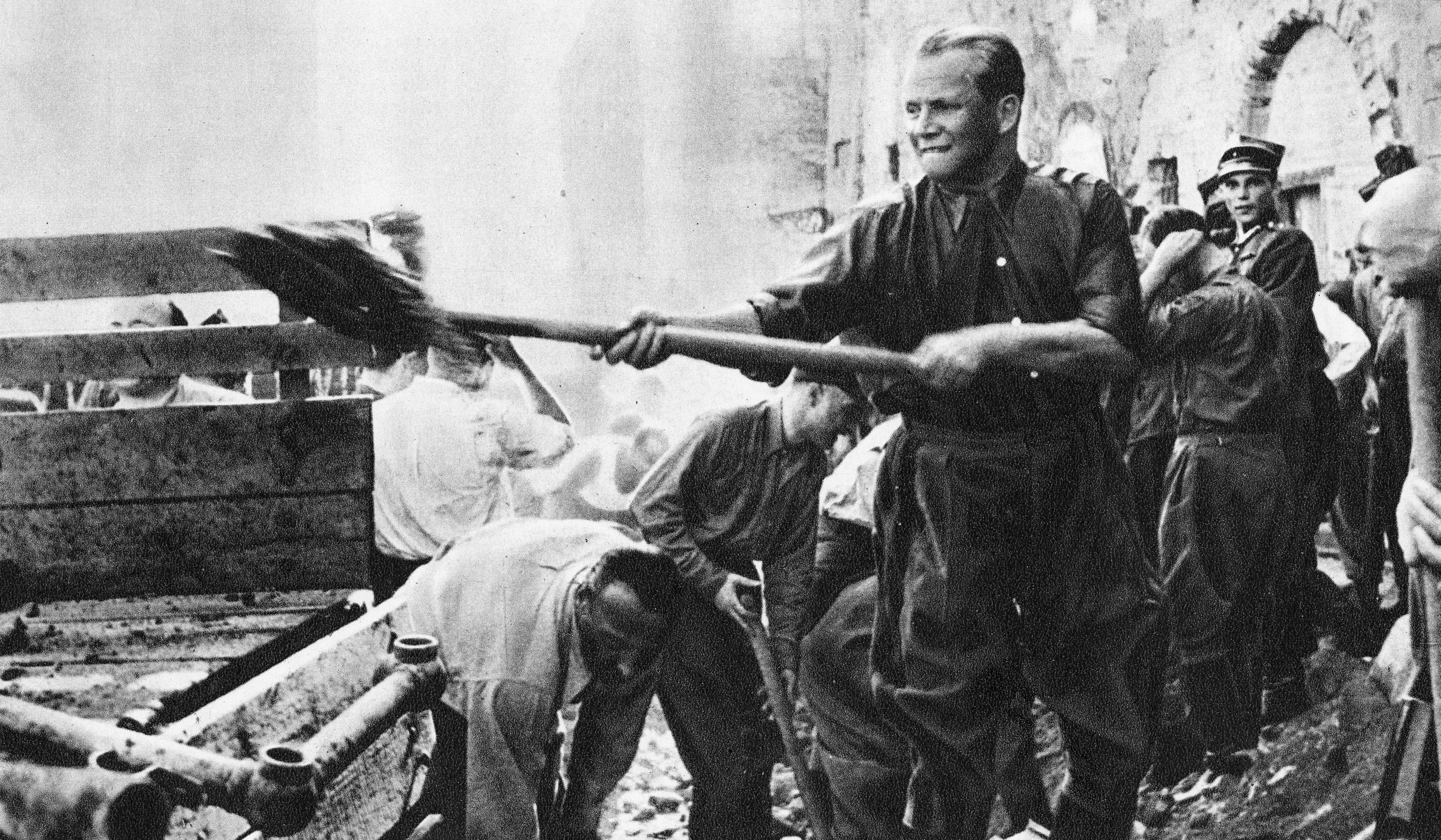 Marshal of Poland Michał Rola-Żymierski during post-war rubble-clearing in Warsaw